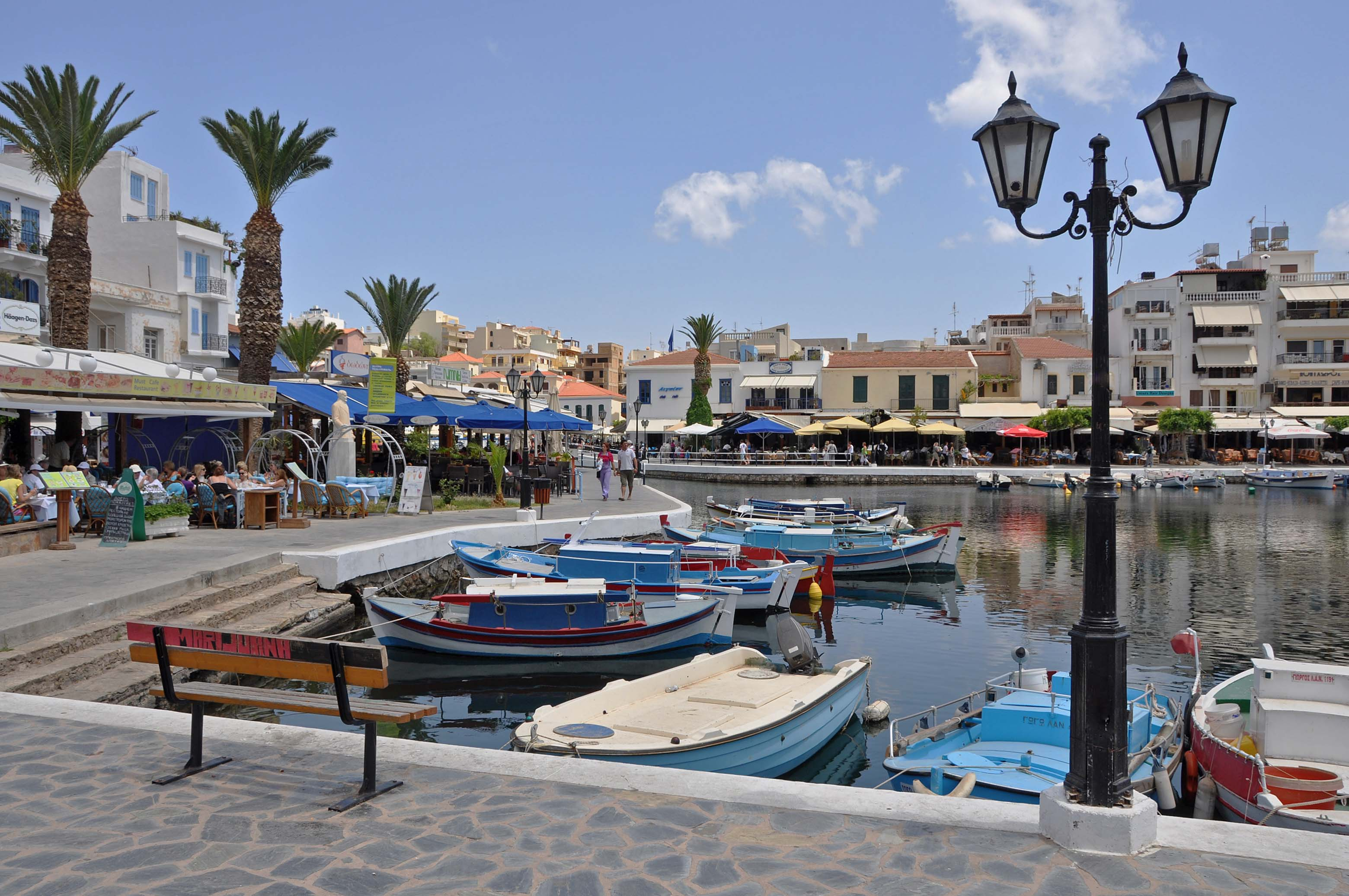 Agios Nikolaos (Crete, Greece): the old harbour